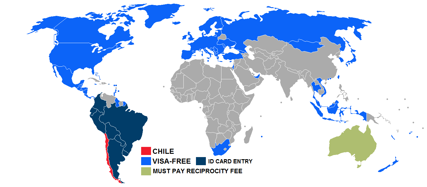 Visa policy of Chile Chile Visa-free entry Entry with ID card only possible Must pay reciprocity fee